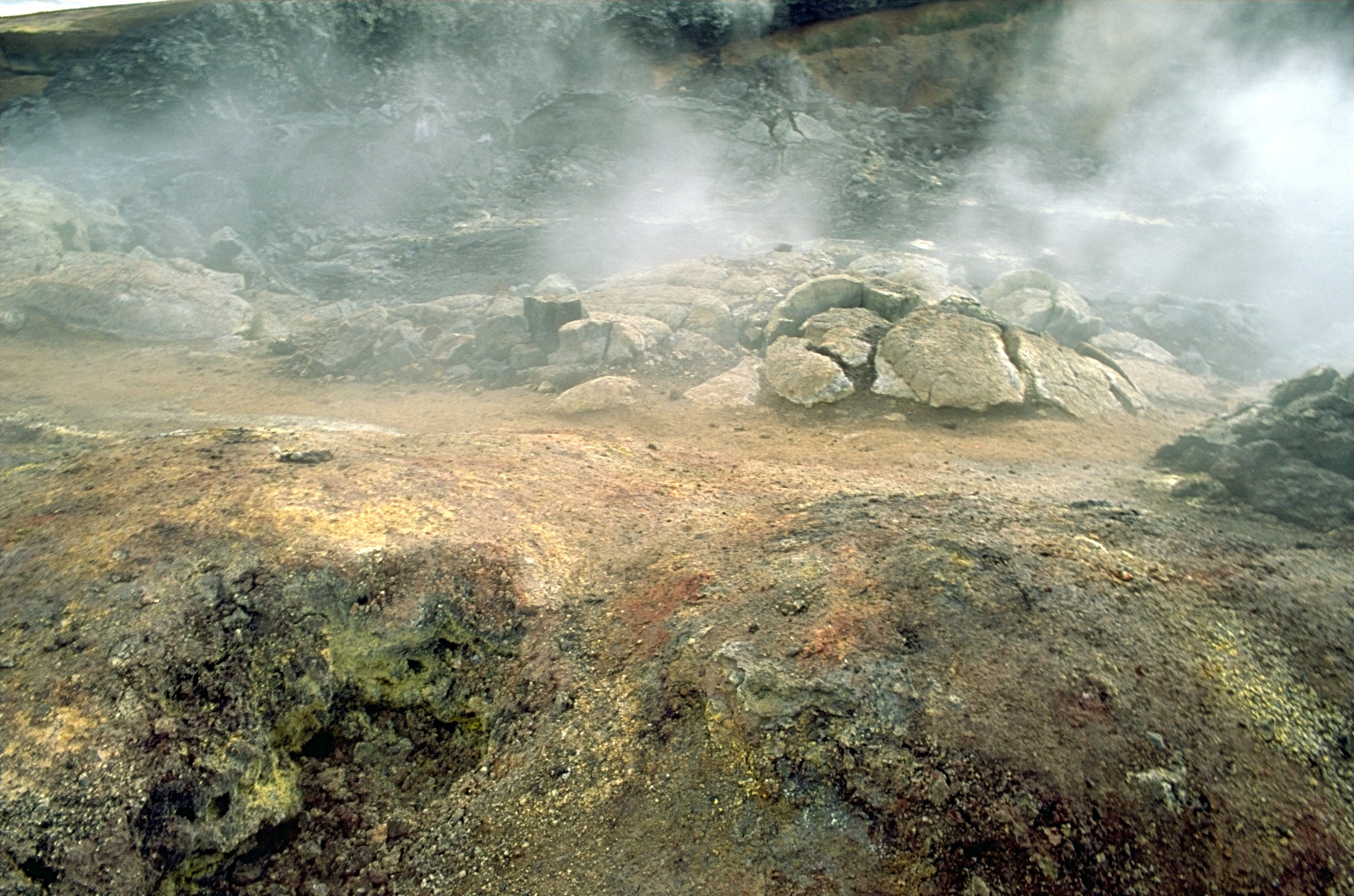 Vapour source at Leirhnjúkur, Iceland Photo was taken using the following technique: Film: Fuji Velvia Lens: 2.0/20 Filter: Body: Minolta Dynax 600si Support: Gitzo Monotrek Image with Information in English Bild mit Informationen auf Deutsch